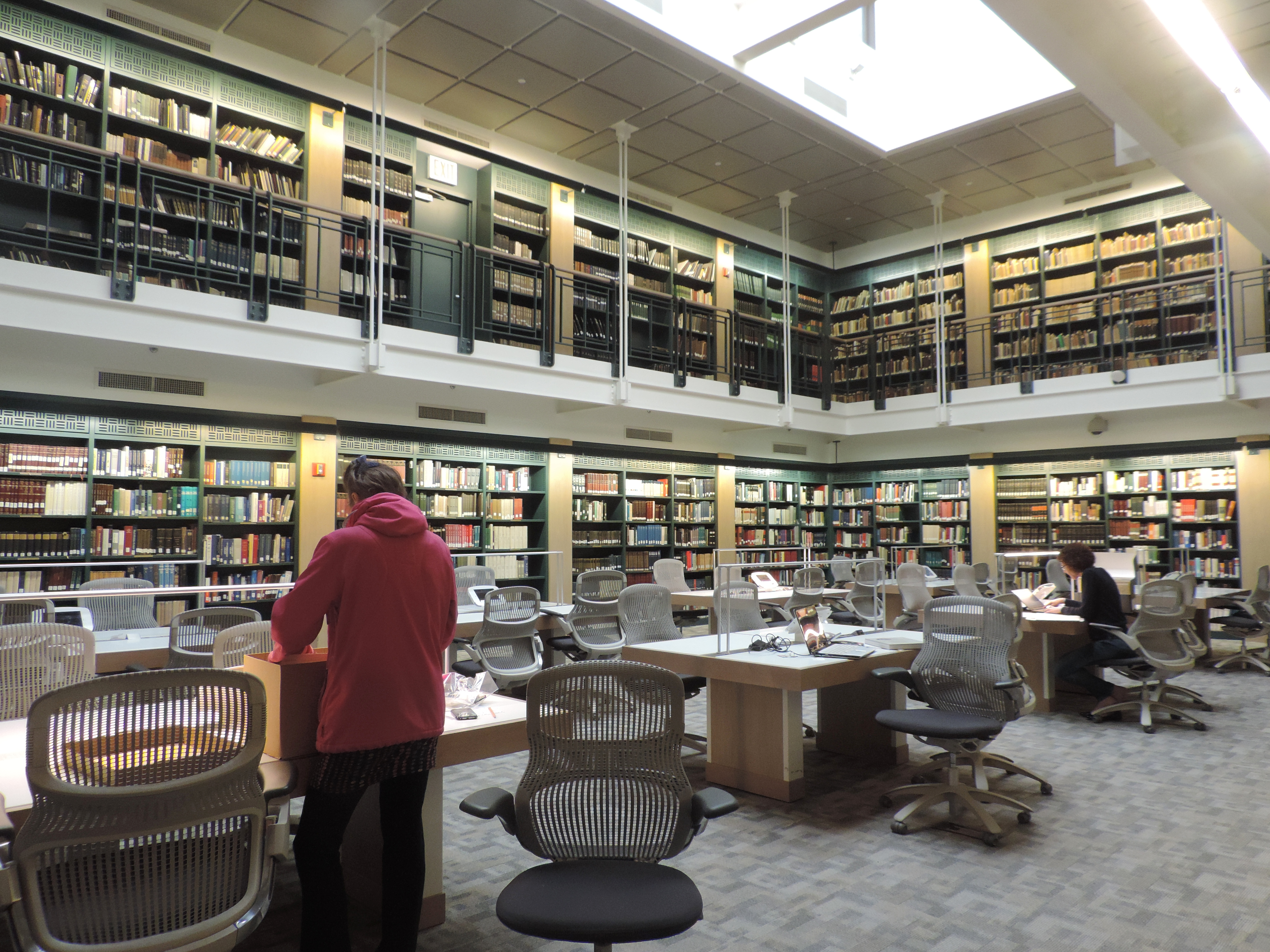 Looking east in reading room of Center for Jewish History